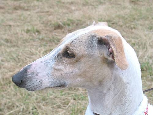 Female red and white piebald hortaya borzaya.